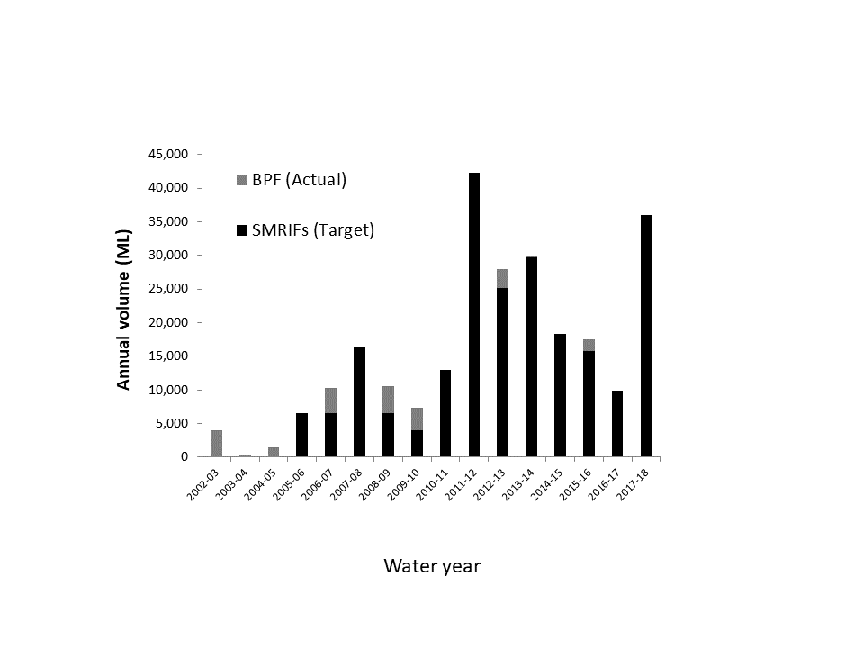 Environmental water (SMRIF) and the Base Passing Flow (i.e.. BPF) to the Murrumbidgee River, 2002-2017.